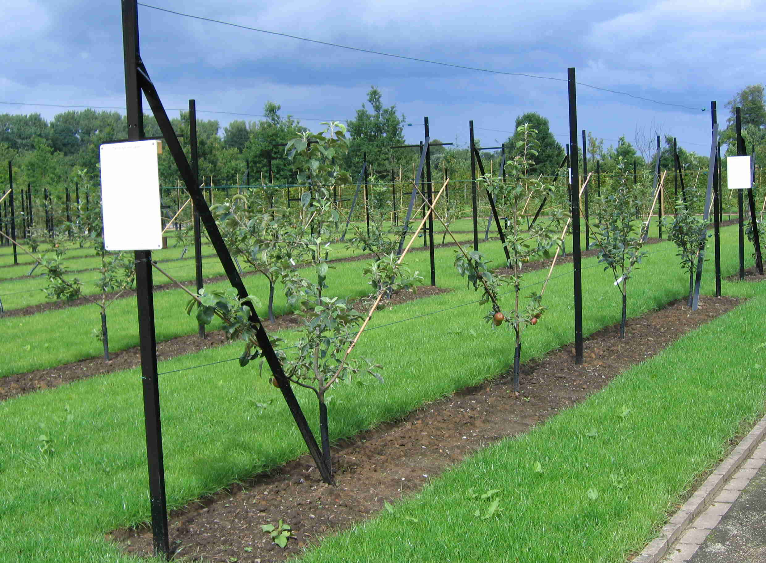 A picture of the spindlebush fruittreeform. The picture was taken at a fruittreeform-test site near the castle of Gaasbeek.